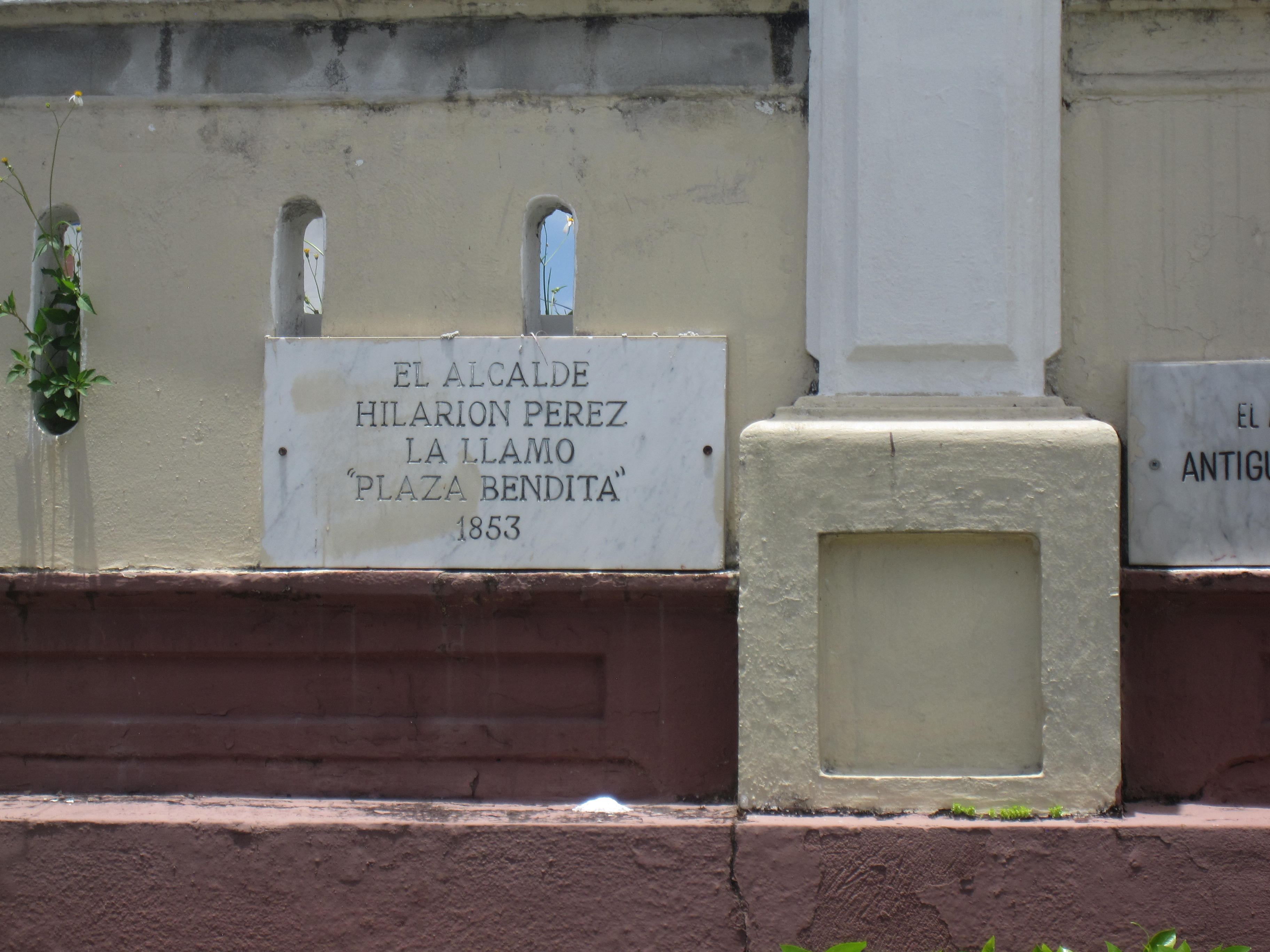 Plaque on outside wall of Nuestra Señora de la Candelaria church inManatí, Puerto Rico.